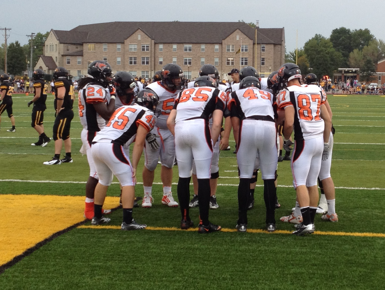 Football huddle. Baker University playing Ottawa University.